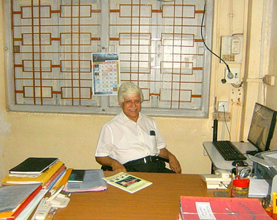 While working at SVIMS (International), Wadala, Mumbai